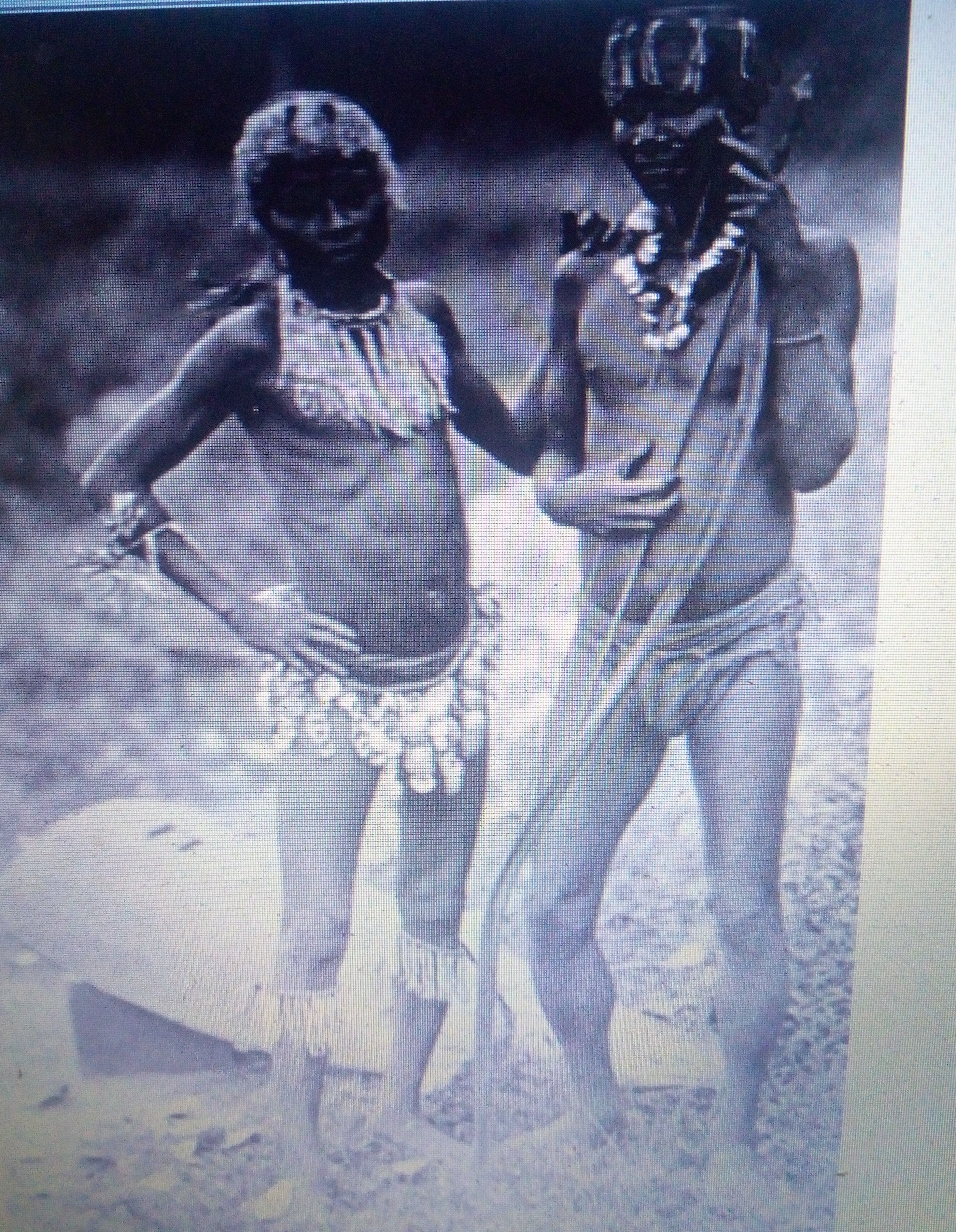 Typical ancient Jere men, the stubborn creatures